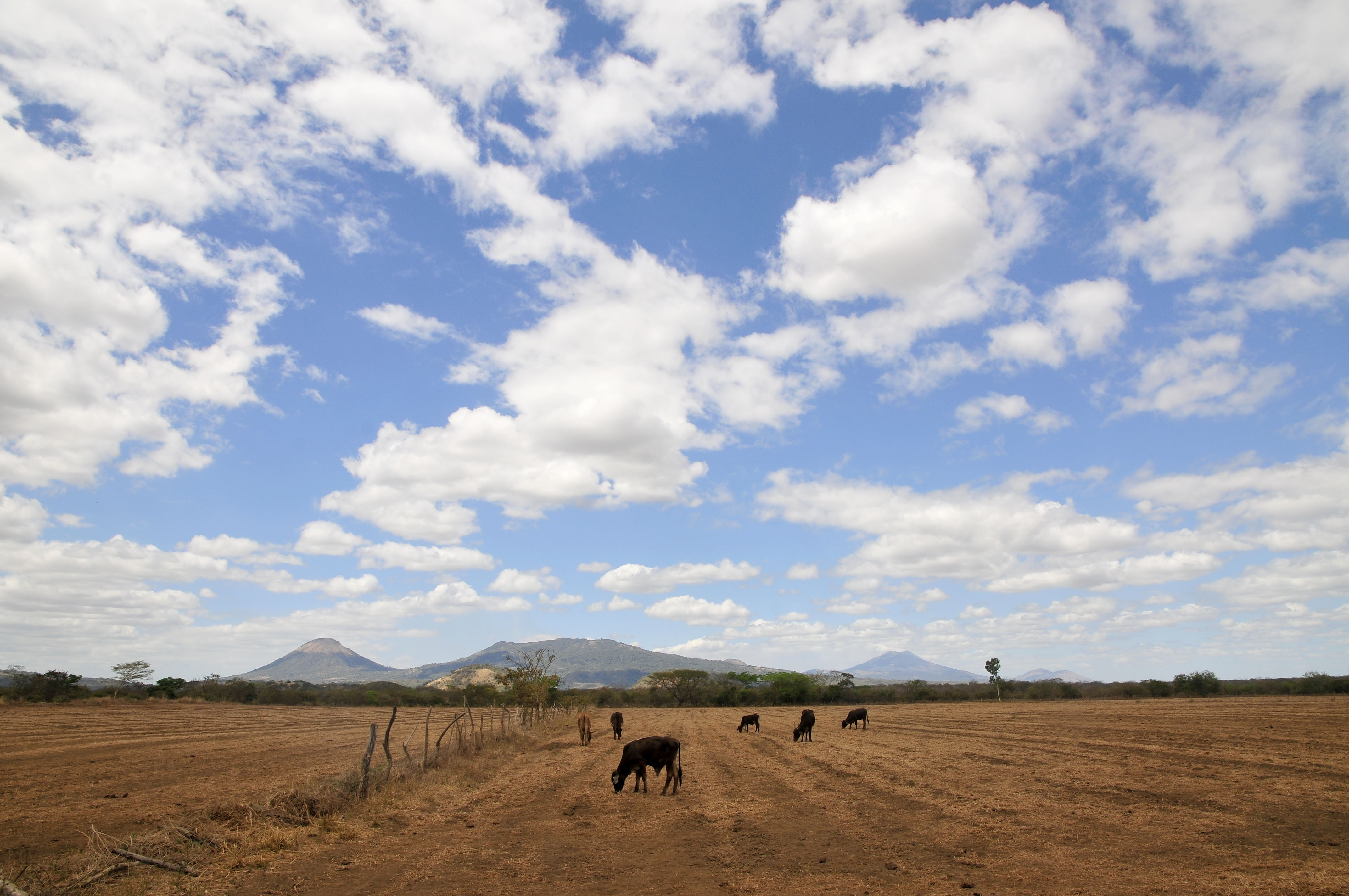 Cattle graze a parched field in Nicaragua during the Central American country's intense dry season.